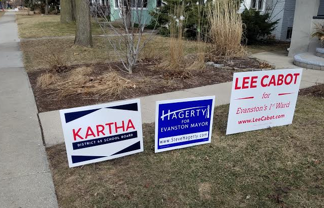 Yard signs for political candidates Sunith Kartha, Steve Hagerty, and Lee Cabot outside a house in Evanston, Illinois.